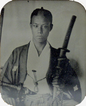 Egawa Hidetoshi by Nakahama Manjiro